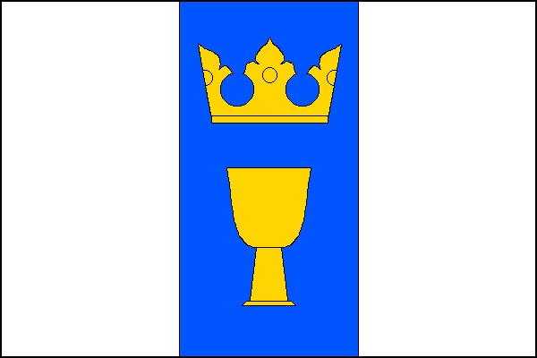 Municipal flag of Pozlovice market town, Zlín District, Czech Republic.